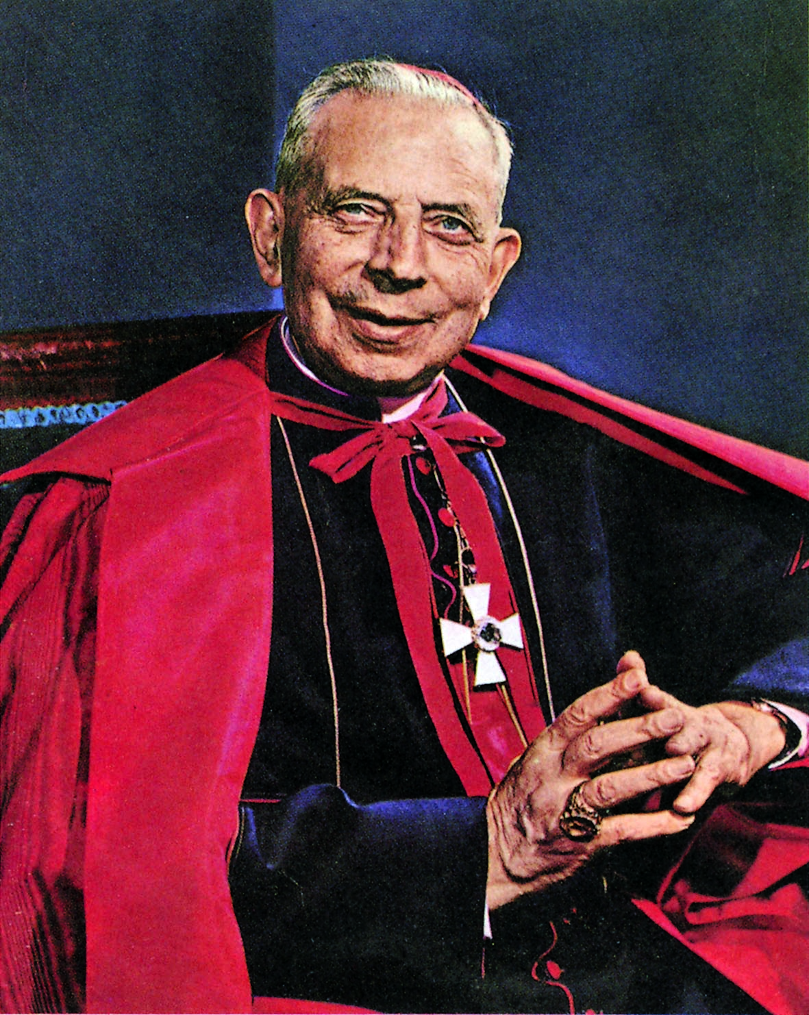 Giacomo Lecaro